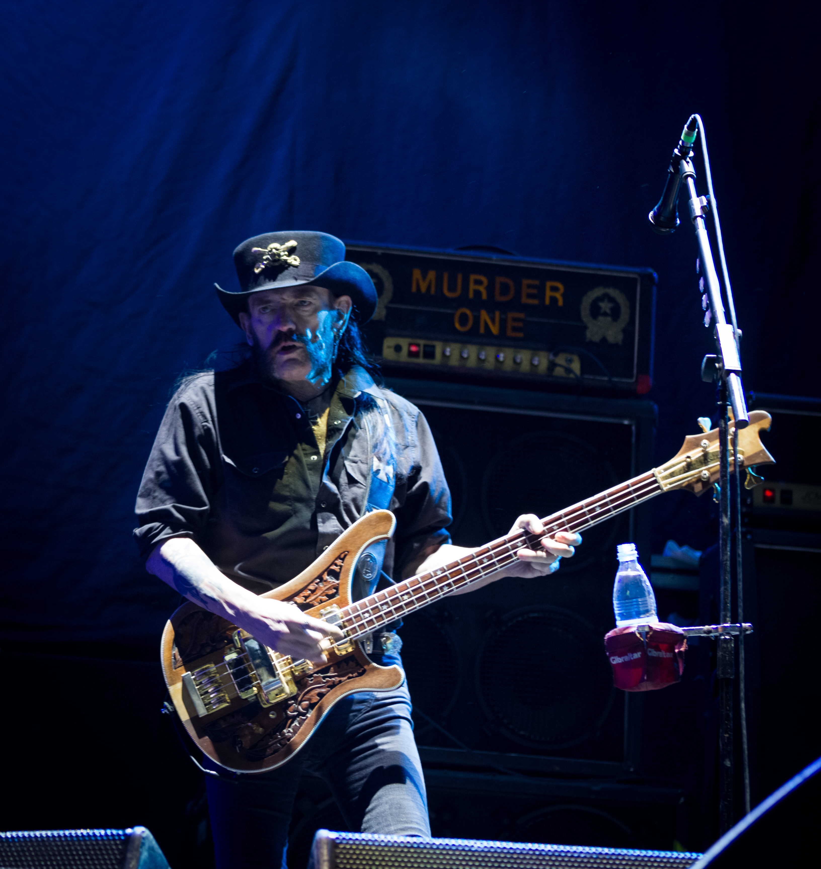 Motörhead - Rock am Ring 2015